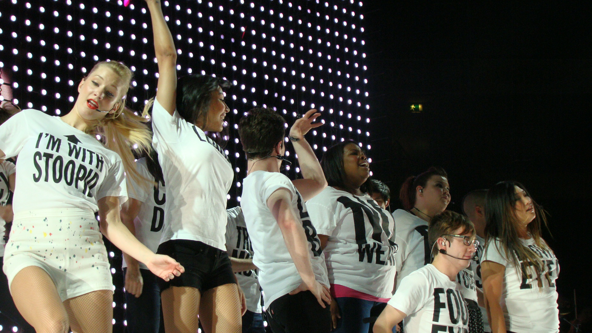 Born This Way